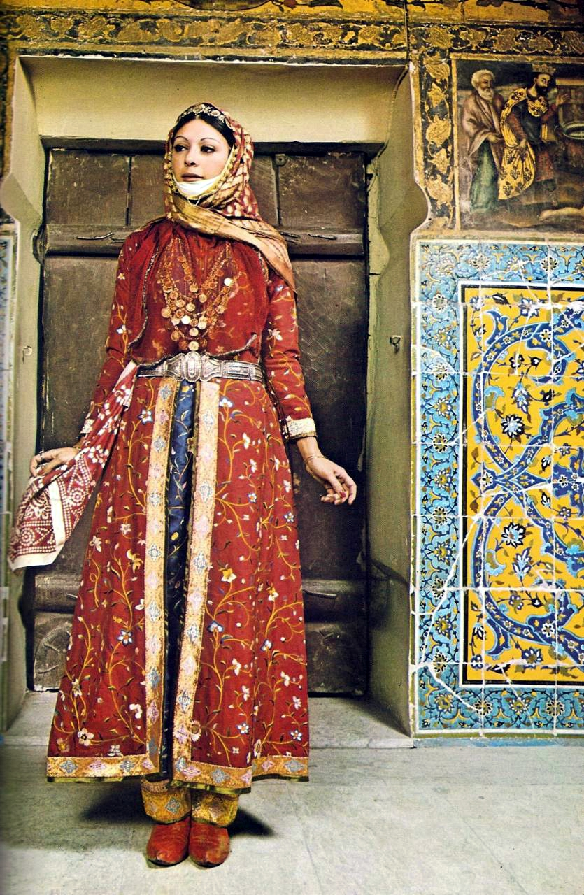 Armenian taraz (national costume) of New Julfa, Isfahan (16th - 17th c.). Made of antique cloth embroidered entirely by hand.